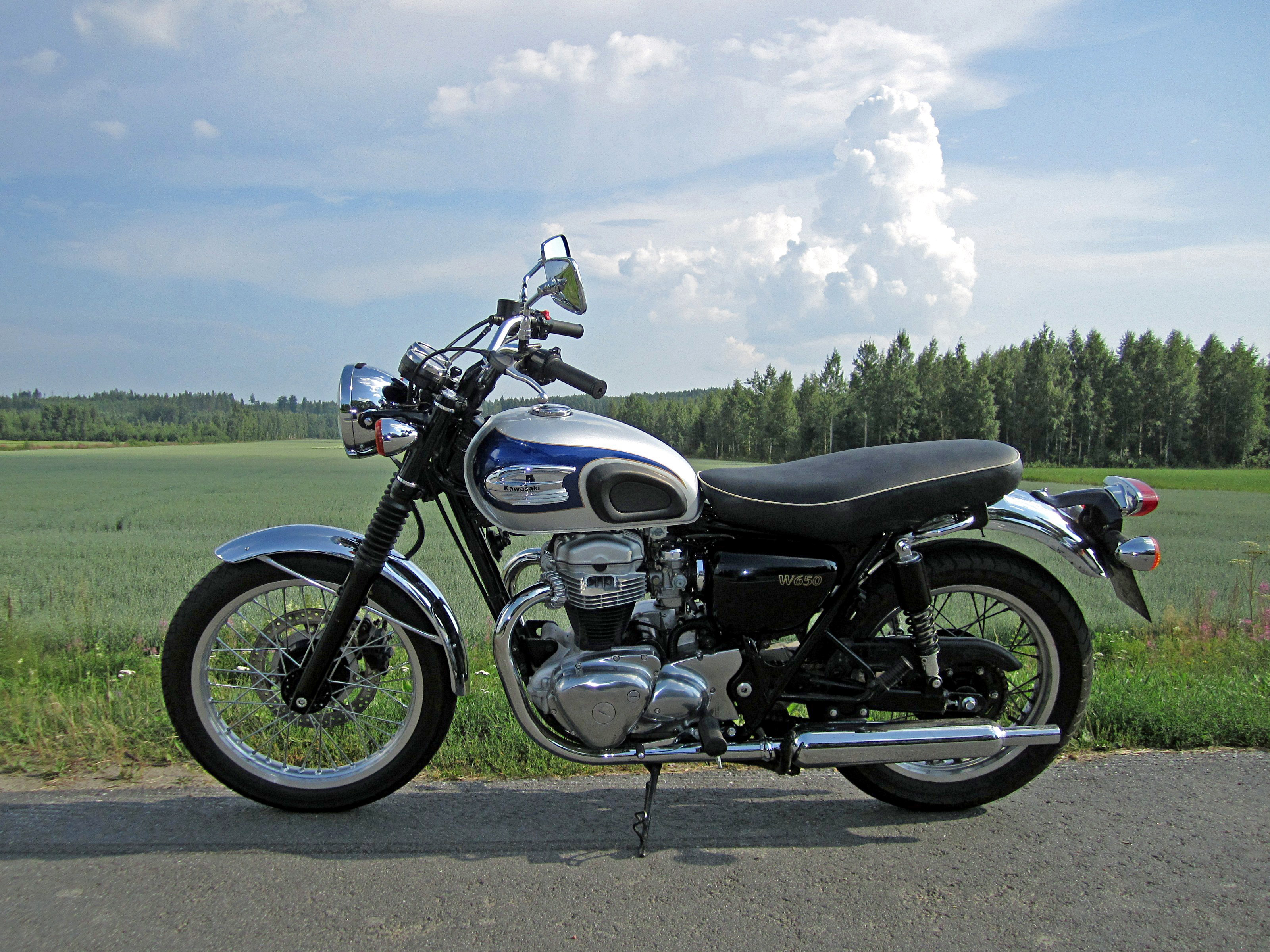 First generation Kawasaki W650 was in production 1999-2000.